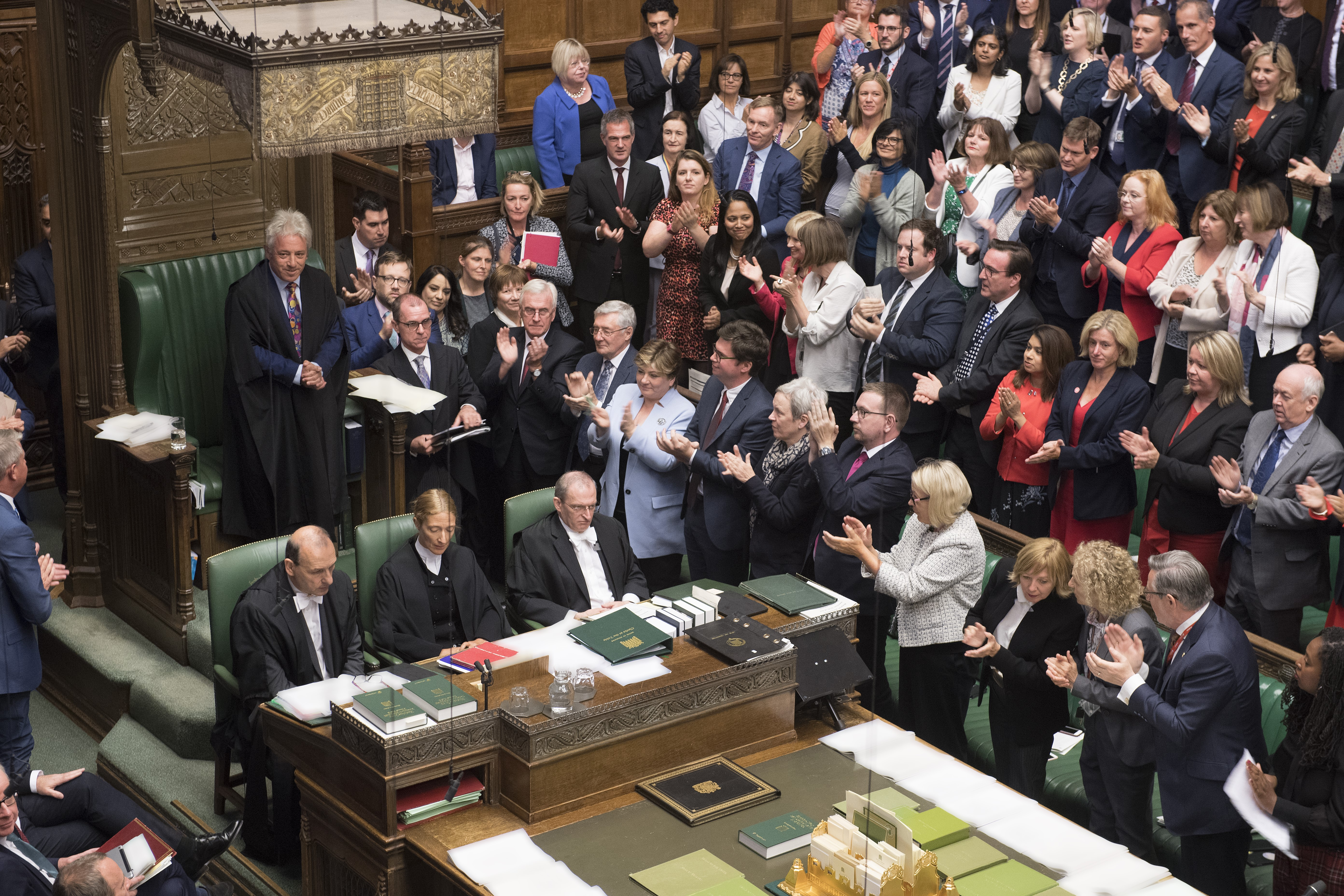 Rt Hon John Bercow MP announces his retirement as Speaker of the House of Commons